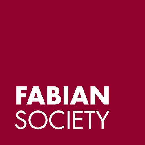 Logo of the Fabian Society